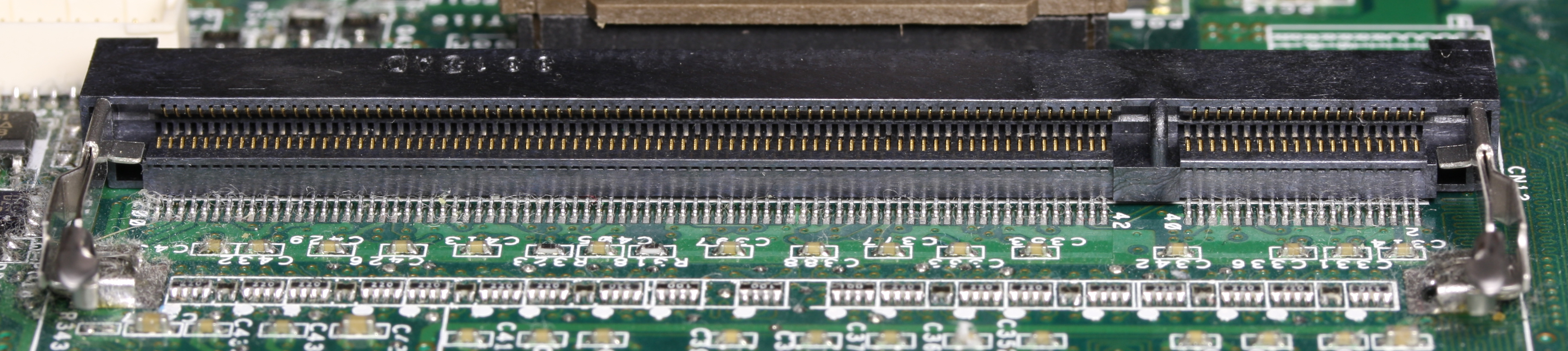 A slot for DDR SO-DIMMs (Small Outline Dual Inline Memory Module) on a mainboard.